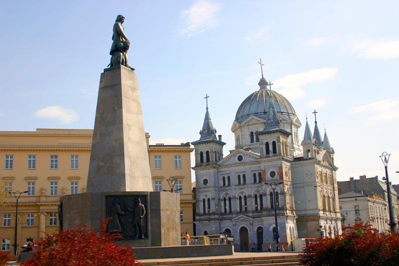 Piotrkowska Street, Lodz, Poland